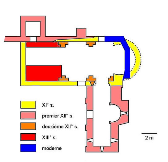 Scheme of historical building lay out of the Saint Symphorien de Bonnieux praying church.